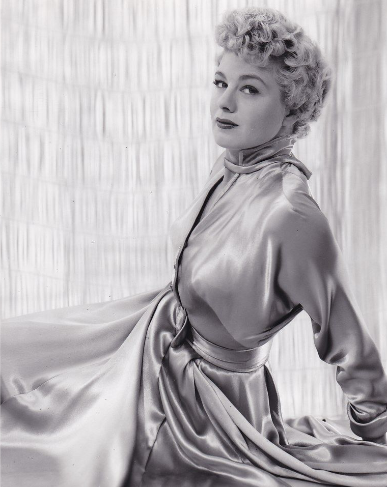 Shelley Winters c. 1950 portrait